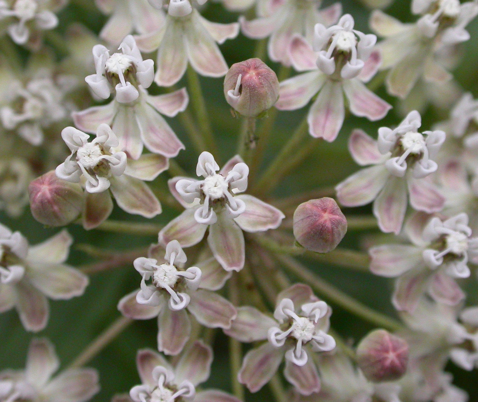 Asclepias fascicularis — Narrowleaf milkweed, close-up of flowers. Photographed at the Voorhis Ecological Reserve, BioTrek at Cal Poly Pomona, California. Contributed and © by Curtis Clark. Licensed as noted.